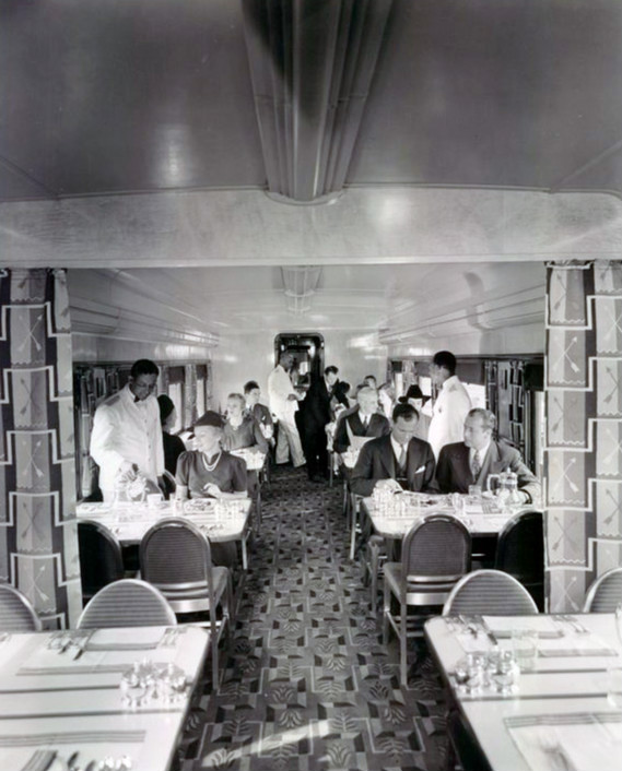 Photo of the dining cars which were carried on the Chicago, Milwaukee and St. Paul Railway's "Hiawatha" fleet of trains.